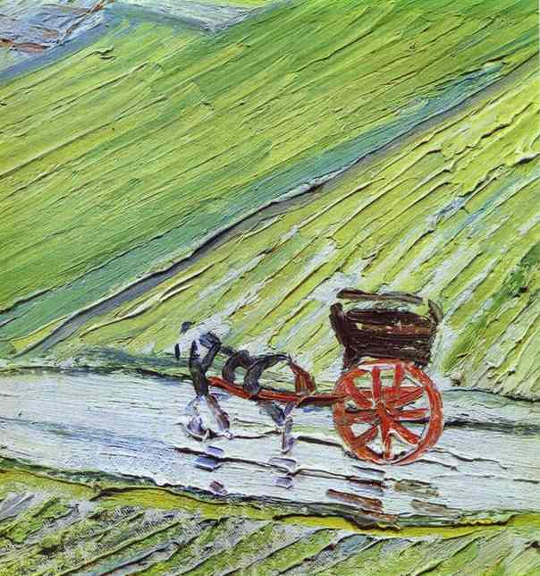 A Road in Auvers after the Rain. Detail. 1890. Oil on canvas. The Pushkin Museum of Fine Art, Moscow, Russia.